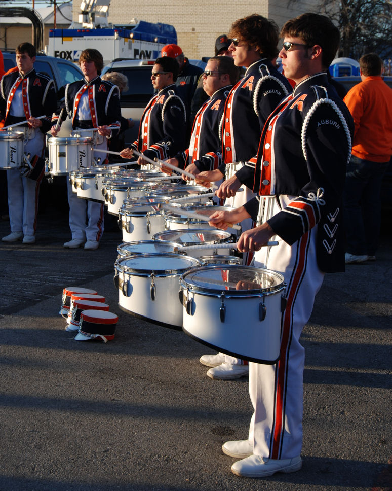 Auburn University Marching Band drumline warms up before the 2007 Cotton Bowl in Dallas, Texas